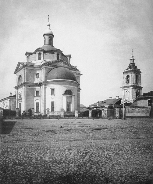 Храм Усекновения главы Иоанна Предтечи в Казенной слободе Church of the Beheading of John the Baptist in the Kazyonnaya sloboda, Pokrovka Street, Moscow